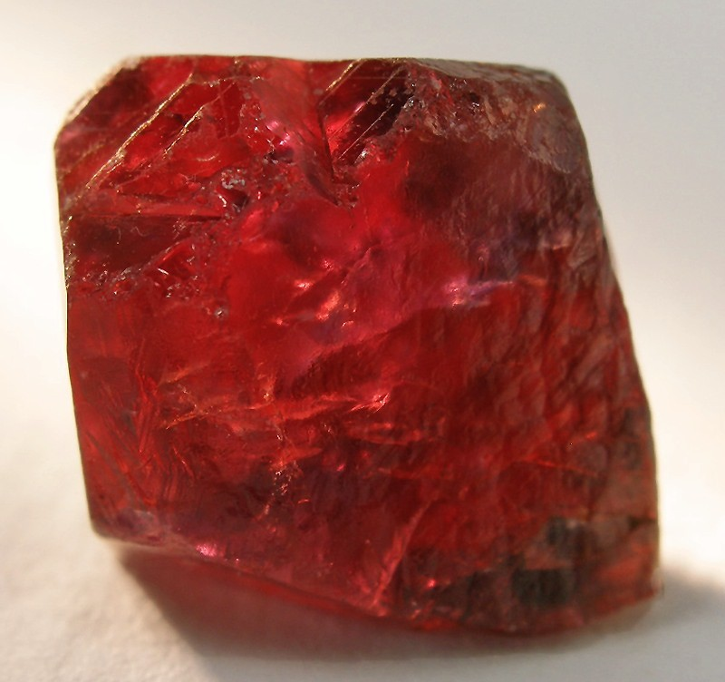 Corundum (Var.: Ruby) Locality: Winza, Mpapwa, Mpapwa (Mpwampwa) District, Dodoma region, Tanzania (Locality at ) Size: 1.3 x 1.3 x 1.1 cm. This is a rather equant, glassy and gemmy, rose to cherry red, doubly terminated, ruby crystal. The color is very close to the pigeon’s blood red, found in rubies. Only contacted at the bottom. This is a superb loose ruby crystal of really quite good lustre and form compared to rubies from any other locality. For this particular deposit, it is more pure red, and more gemmy, than most crystals of this size. 25 carats.